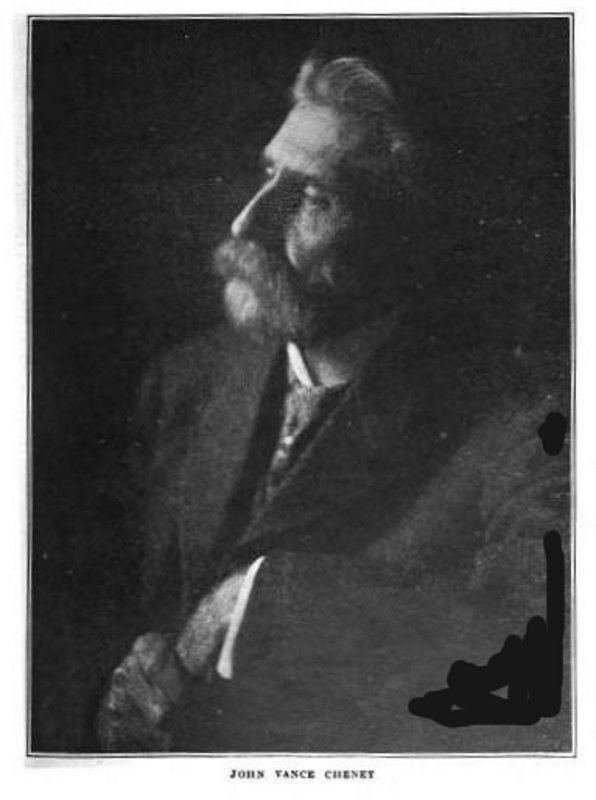 John Vance Cheney.